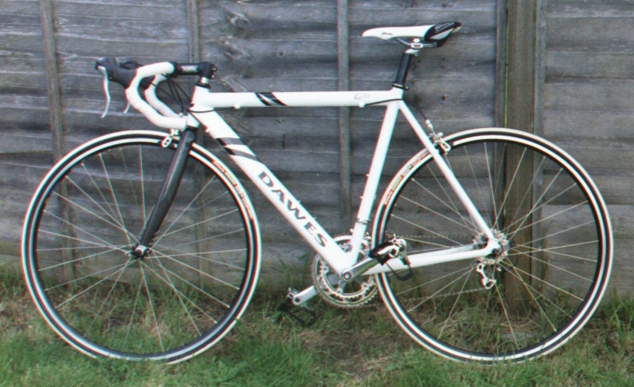 Dawes Cycles Giro 400 model race bike, with Aluminium tubes and carbon front fork. This one's mine.